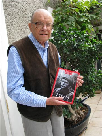 Stefan Bałuk (b. 1914), Polish military officer, soldier of World War II and photographer